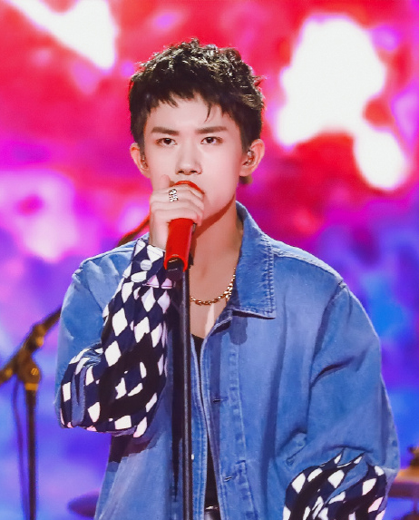 JACKSON YEE